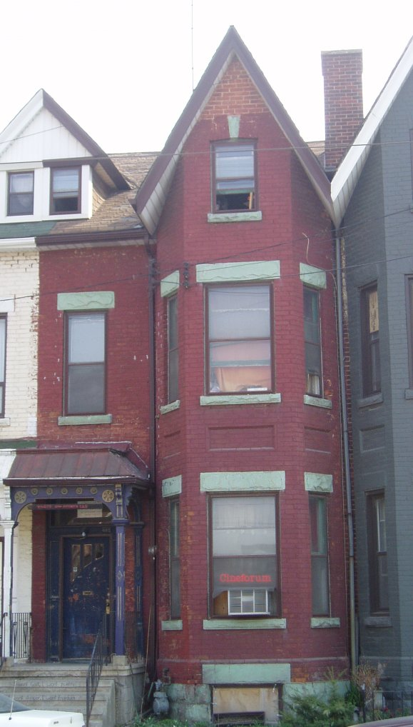 Taken by SimonP in April 2005